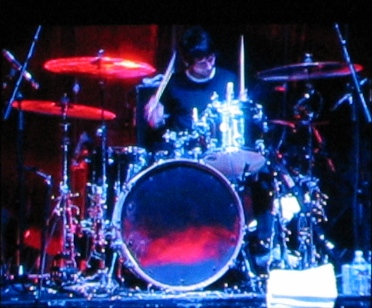 drummer at Oasis concert at Shoreline Amphitheatre in Mountain View, California, September 11, 2005Oasis Concert.